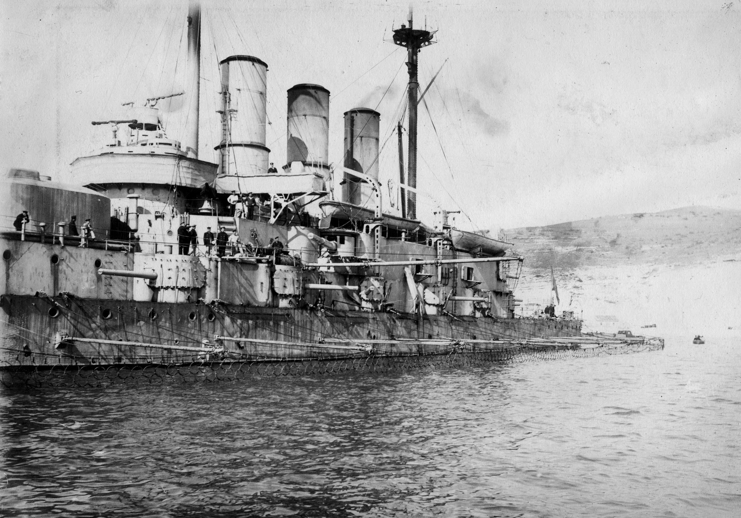 The Imperial Russian battleship Evstafiy with torpedo nets.